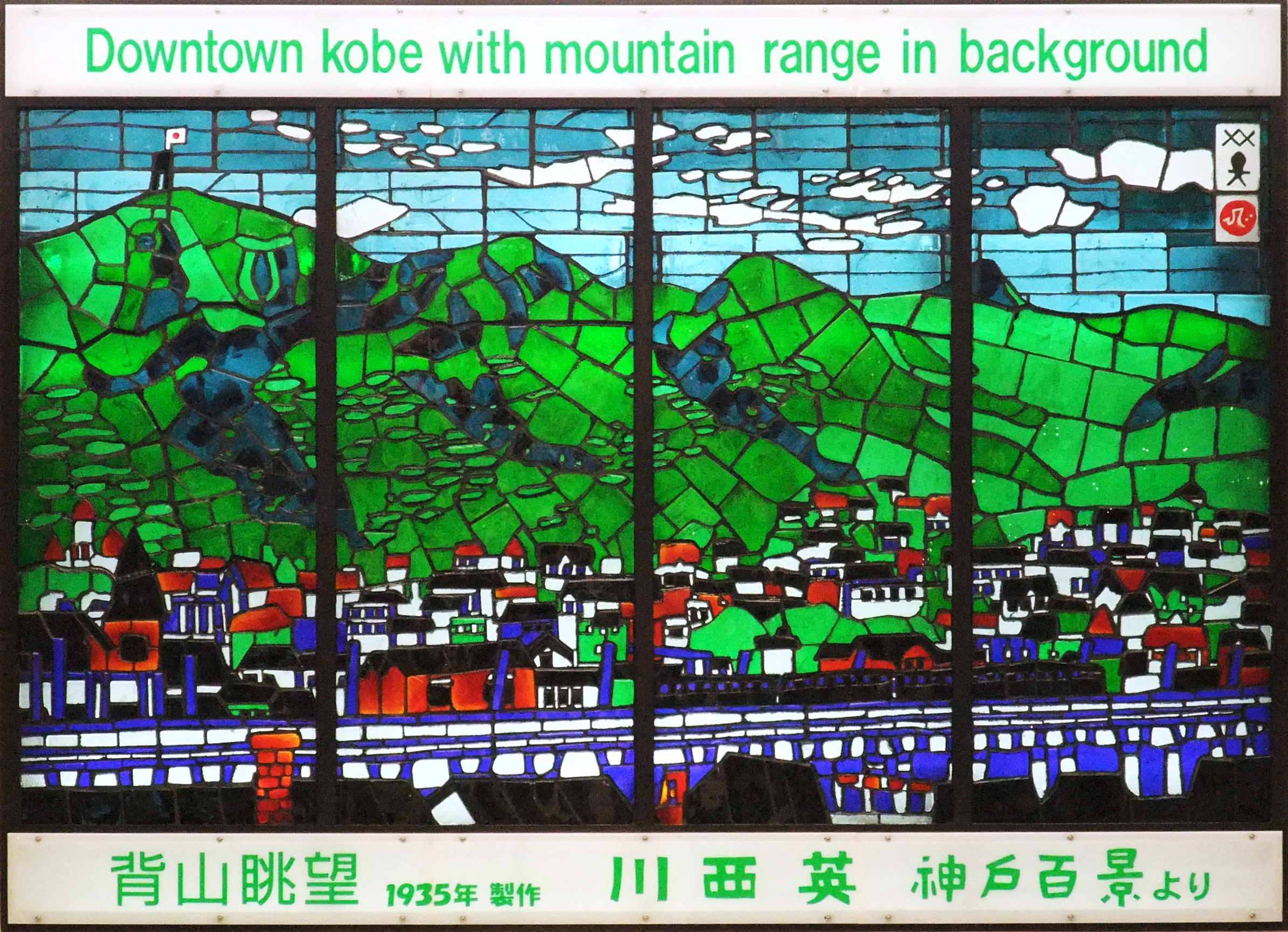 "Downtown Kobe with mountain range in background" by Hide Kawanishi (reproduction by stained glass) at Sannomiya Center Street in Kobe, Hyogo prefecture, Japan